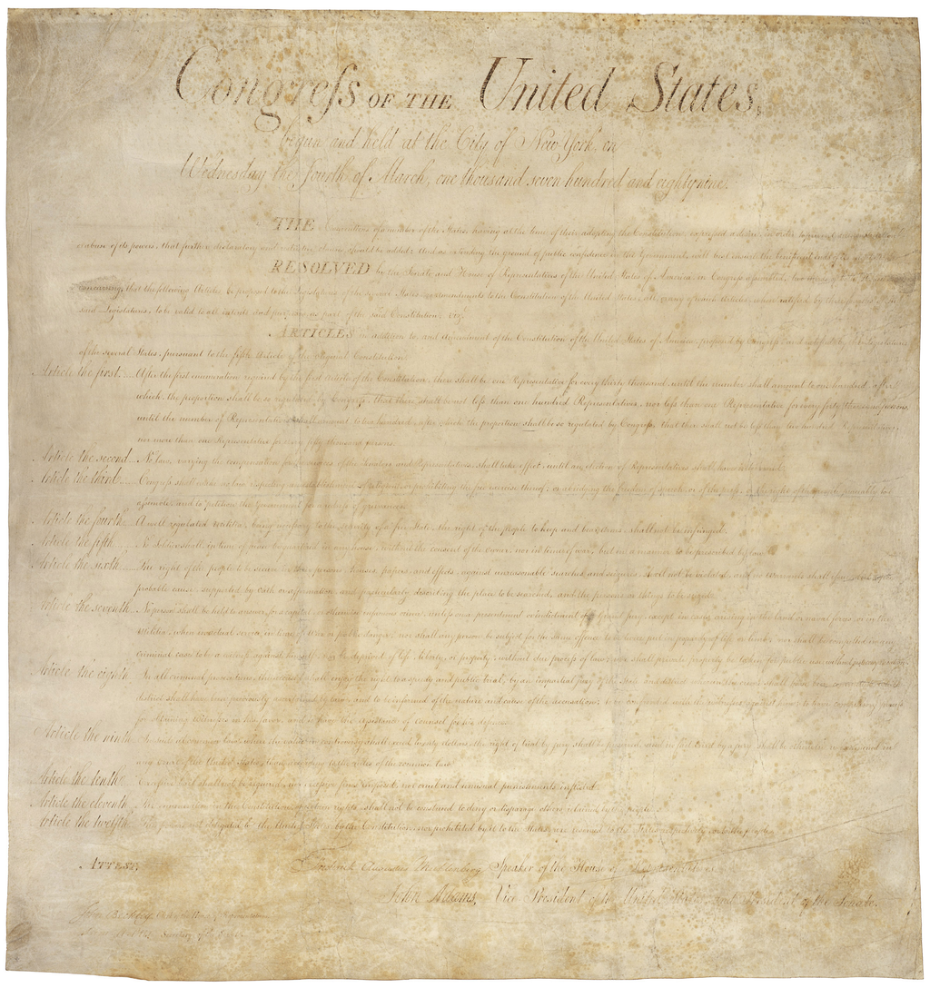 During the debates on the adoption of the U.S. Constitution, its opponents charged that the Constitution as drafted would open the way to tyranny by the central government. Fresh in their minds was the memory of the British violation of civil rights before and during the Revolutionary War, so they demanded a "bill of rights" that would spell out the immunities of individual citizens. Several state conventions, in their formal ratification of the Constitution, asked for such amendments. Others ratified the Constitution with the understanding that the amendments would be offered. On September 25, 1789, the First Congress of the United States therefore proposed to the state legislatures 12 amendments to the Constitution that met the arguments most frequently advanced against it. The first two proposed amendments, which concerned the number of constituents for each representative and the compensation of congressmen, were not ratified. Articles 3 to 12, however, were ratified by three-fourths of the state legislatures and constitute the first ten amendments of the Constitution, known as the Bill of Rights. Constitutional amendments; Constitutions; Politics and government